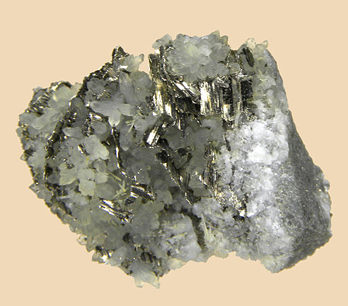 Calaverite Locality: Cresson Mine, Eclipse Gulch, Cripple Creek District, Teller County, Colorado, USA (Locality at ) Size: 2.6 x 2.1 x 1.1 cm. The Cripple Creek District in Colorado was one of the most prolific telluride producing mining districts in the United States. Telluride species from this area are highly sought after by collectors, and it is well justified as some superb examples are known from the various mines in the area. This specimen is loaded with fantastic, sharp, highly splendent, tabular, striated, monoclinic crystals of the rare Gold Telluride, Calaverite which have a bronzy hue and are sitting against frosted grey Quartz crystal matrix. The largest Calaverite crystal measures a full 9 mm in length which is great for the species and the locality. These specimens are very difficult to obtain, and considering that the majority of them were mined over 100 years ago, the only source for specimens is old collections. Ex. Richard Kosnar Collection.